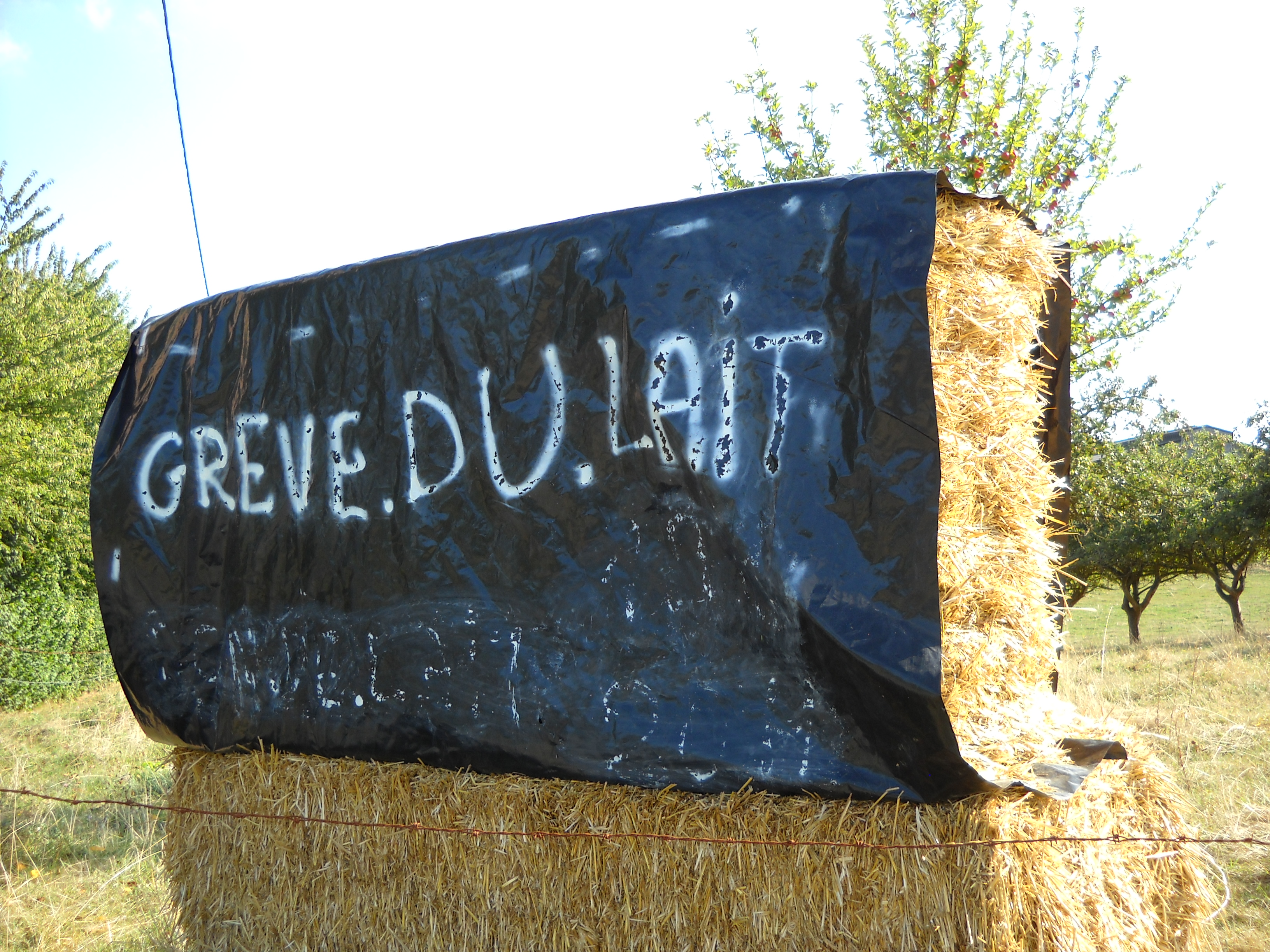 During the 2009 milk crisis, near Préaux-du-Perche, Orne, France.